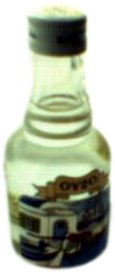 A souvenir bottle of ouzo (40 mL), purchased in Greece.